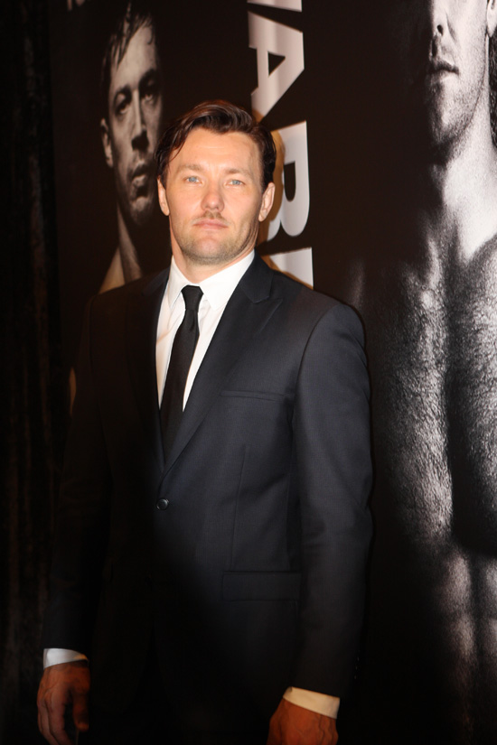 Joel Edgerton at Warrior Sydney Premiere